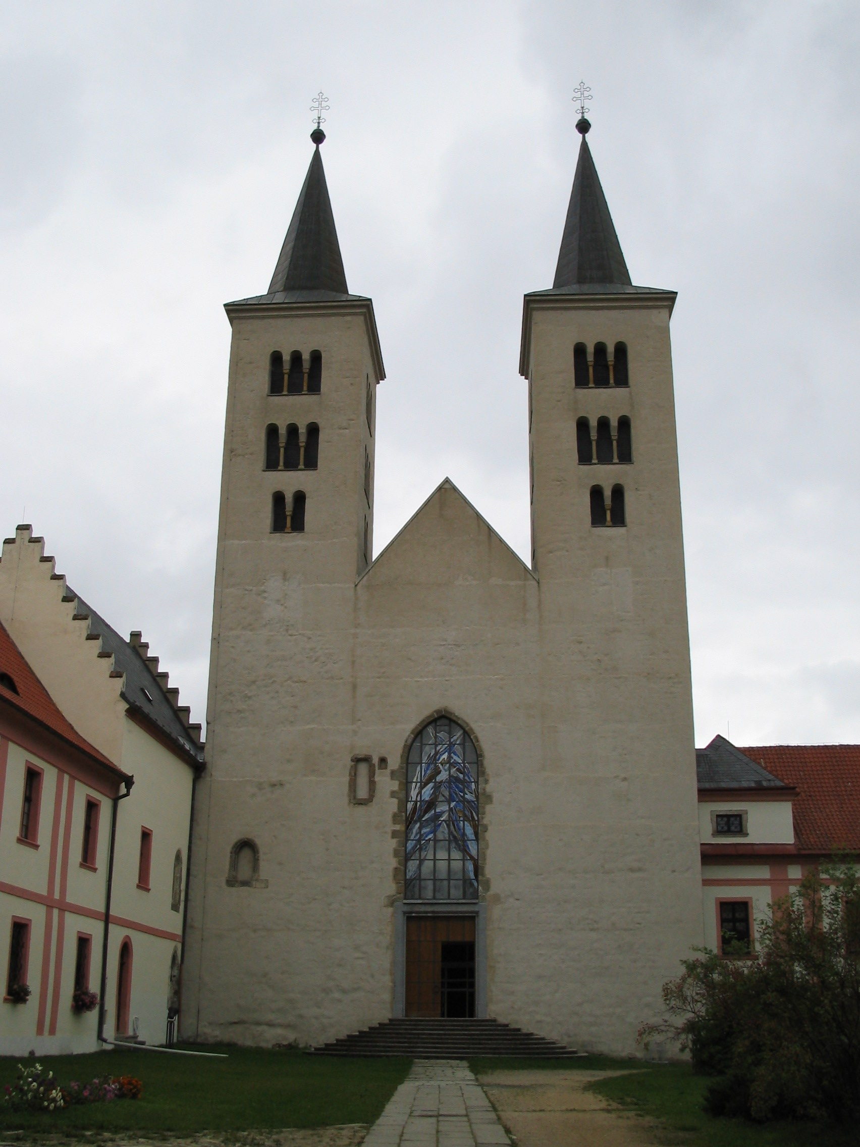 Virgin Mary Visitation church in Milevsko monastery